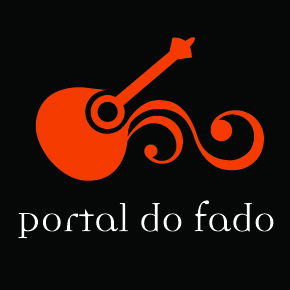 Portal do Fado logo